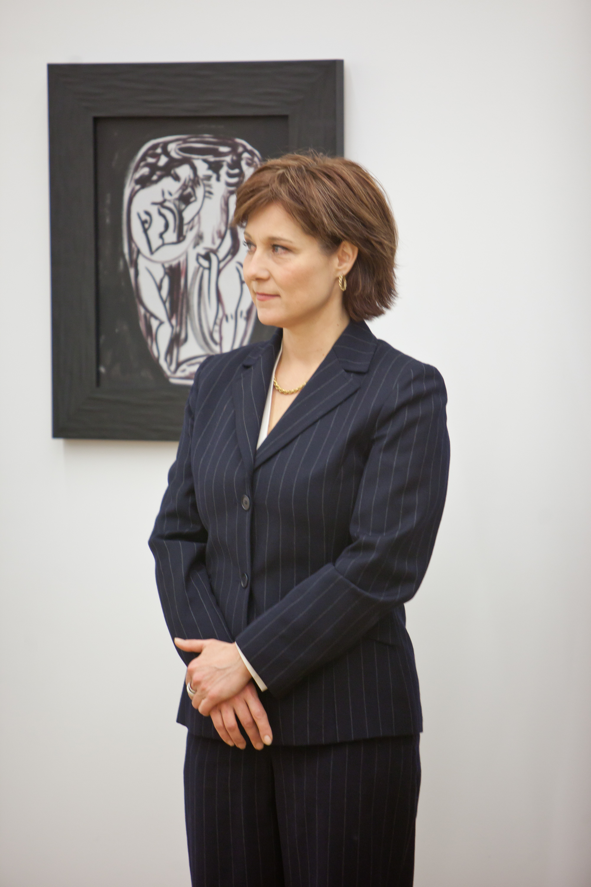 BC Liberal party leadership candidate Christy Clark addresses Vancouver arts & culture community at the Rennie Collection in the Wing Sang Building. Chinatown, Vancouver.